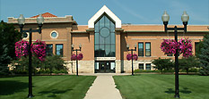 Estherville, Iowa Public Library